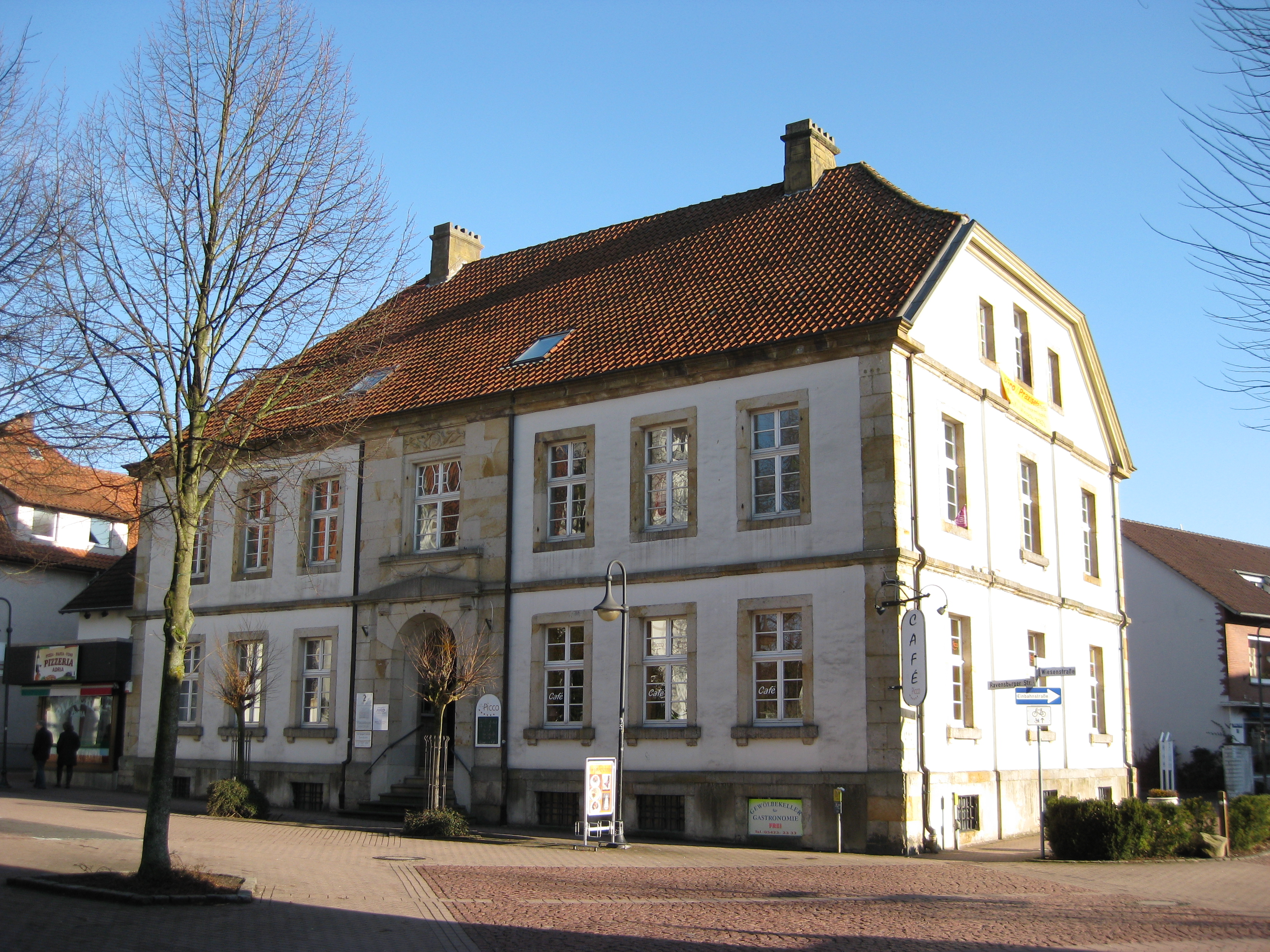 Former office of the mayor in Versmold